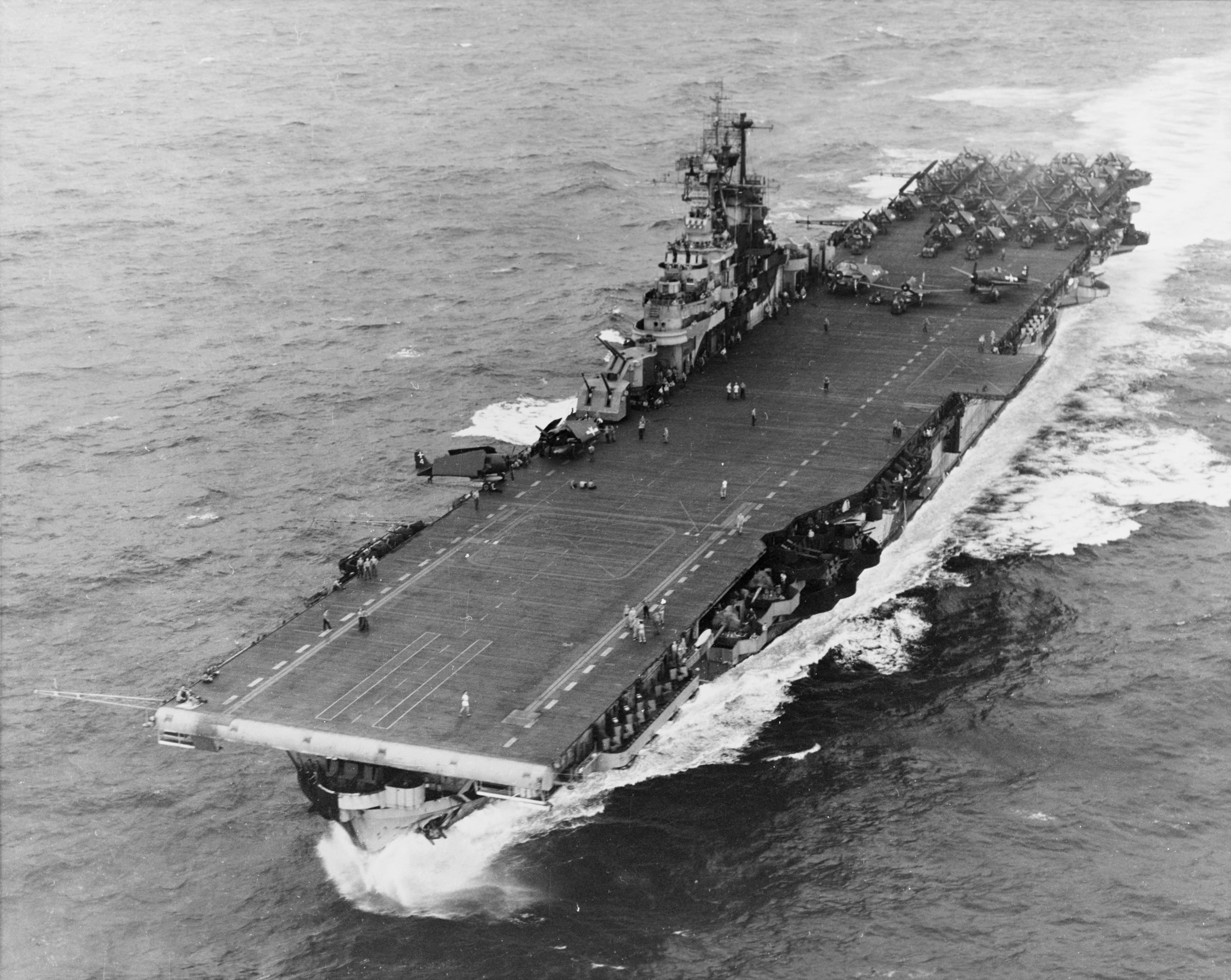 The U.S. Navy aircraft carrier USS Intrepid (CV-11) operating in the Philippine Sea in November 1944. Note the Grumman F6F Hellcat fighter parked on an outrigger forward of her island.